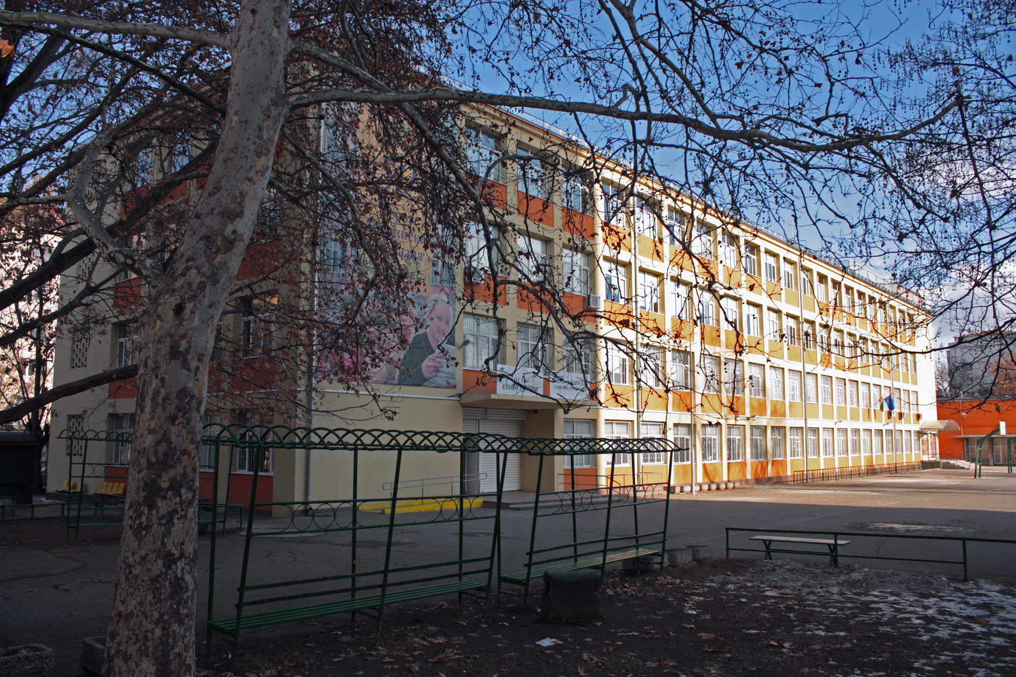 First English Language Secondary School in Sofia, Bulgaria